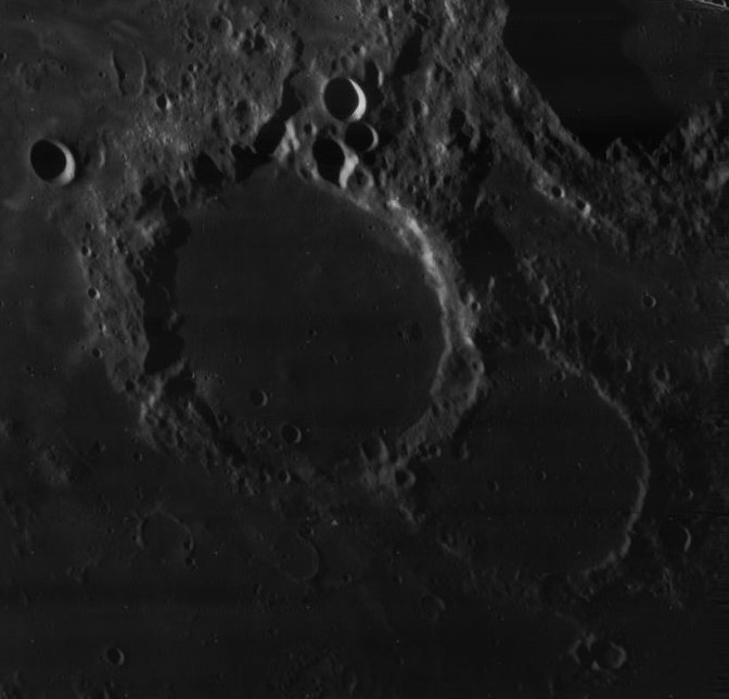 Oblique view of Goddard and Ibn Yunus, on the moon.